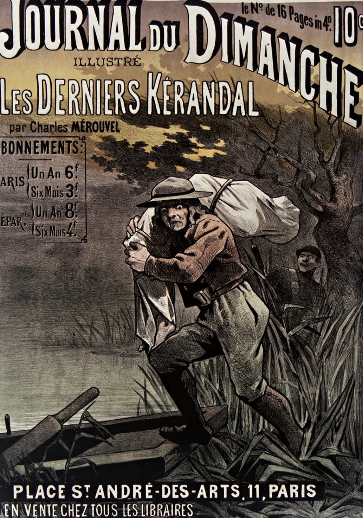 JDD55